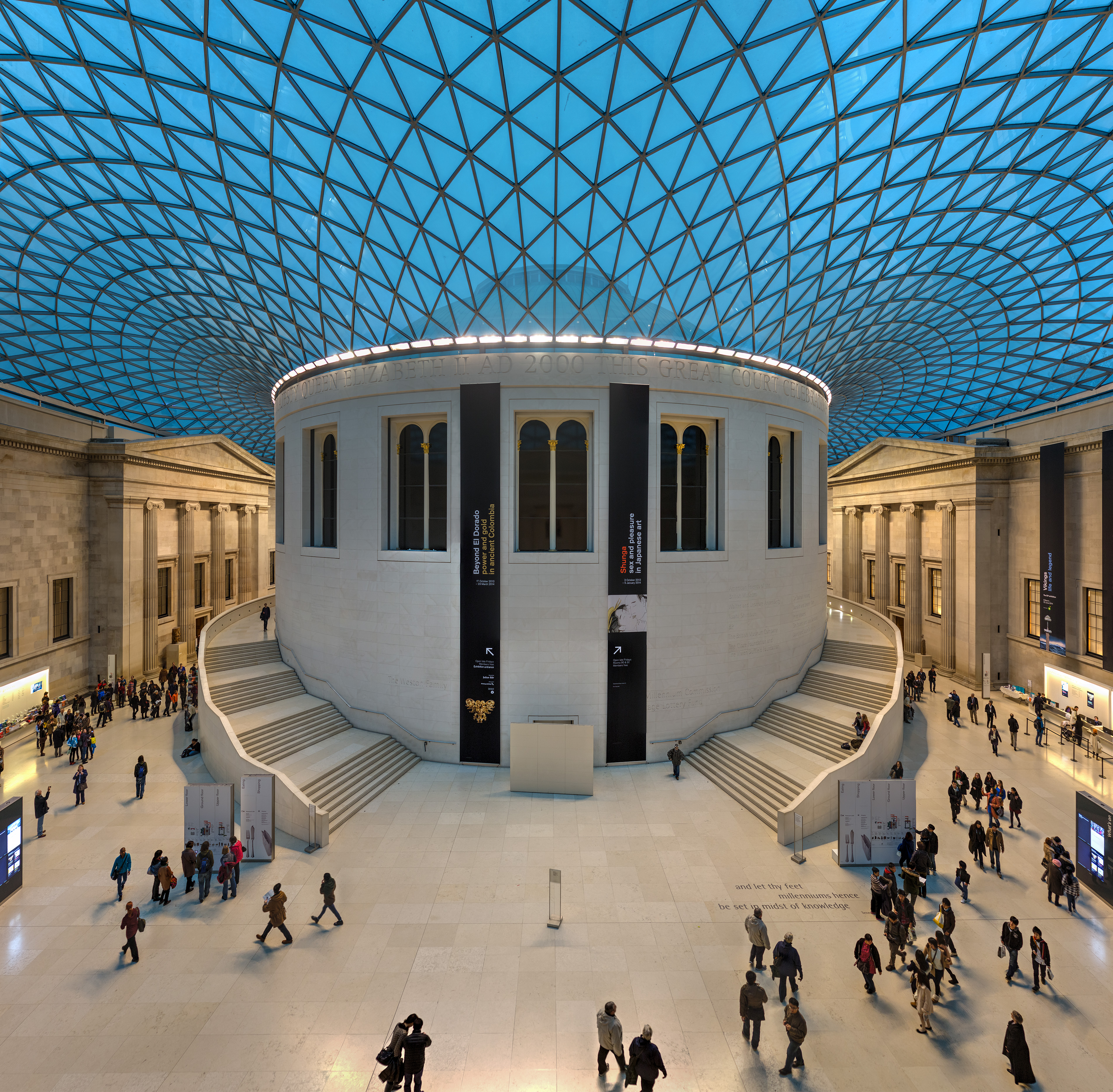 An ultra-wide rectilinear stitched panorama of the Great Court of the British Museum in London, United Kingdom.